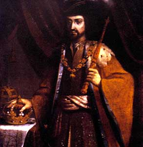 King Manuel I of Portugal (1469-1521)